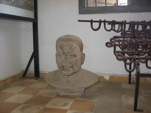 Own work taken in the Tuol Sleng Museum with permission from the Museum administration on March 13, 2006. Donated to the Wikipedia system and it can be considered wikipedian document. Albeiro Rodas, Cambodia, July 2006.